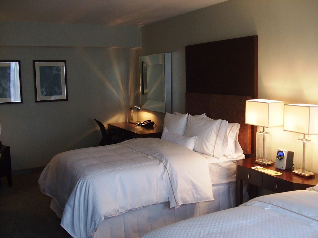 Hotel room at Westin Book Cadillac